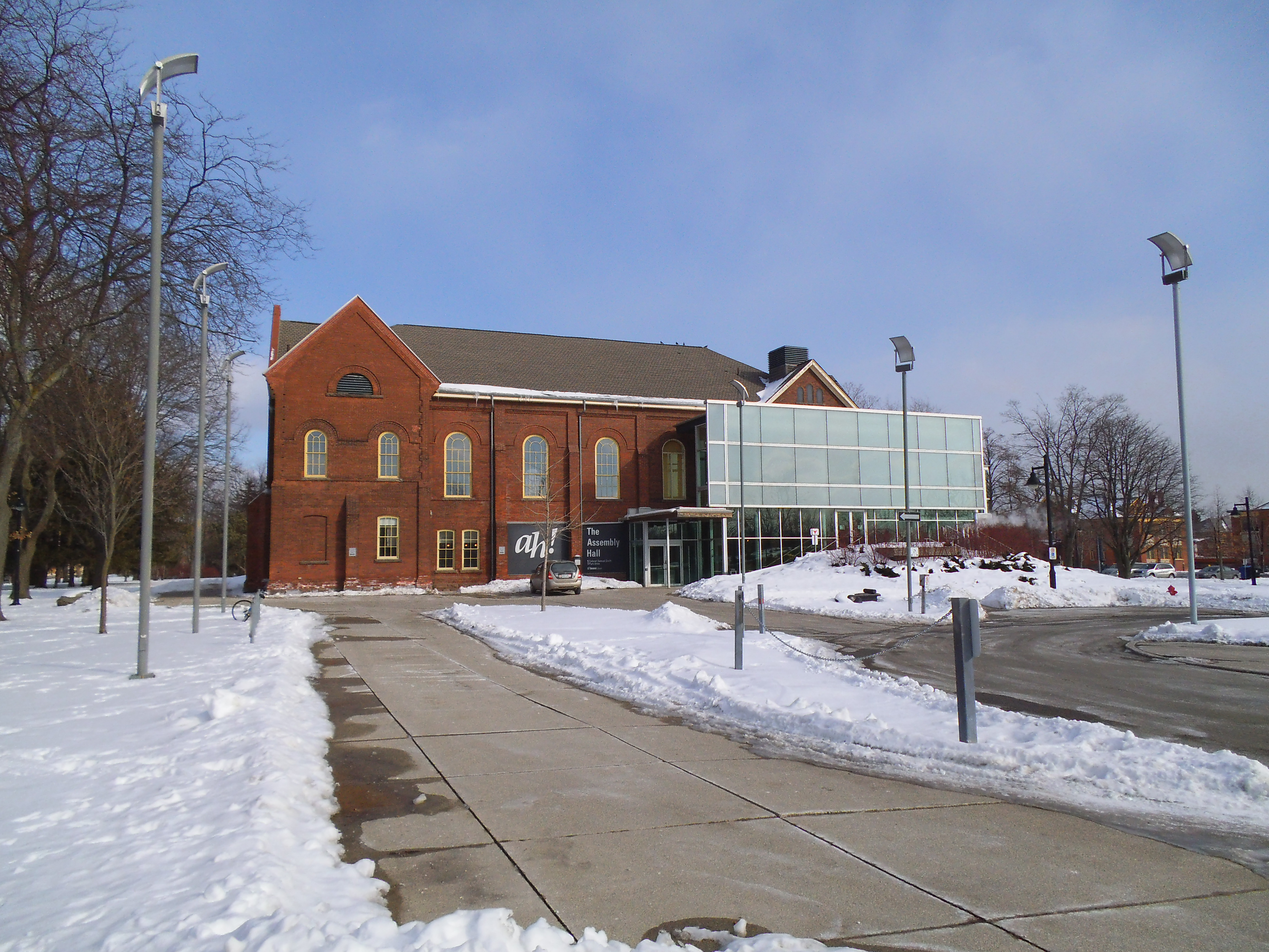 This is the Assembly Hall, run by the City of Toronto, and is a cultural centre.